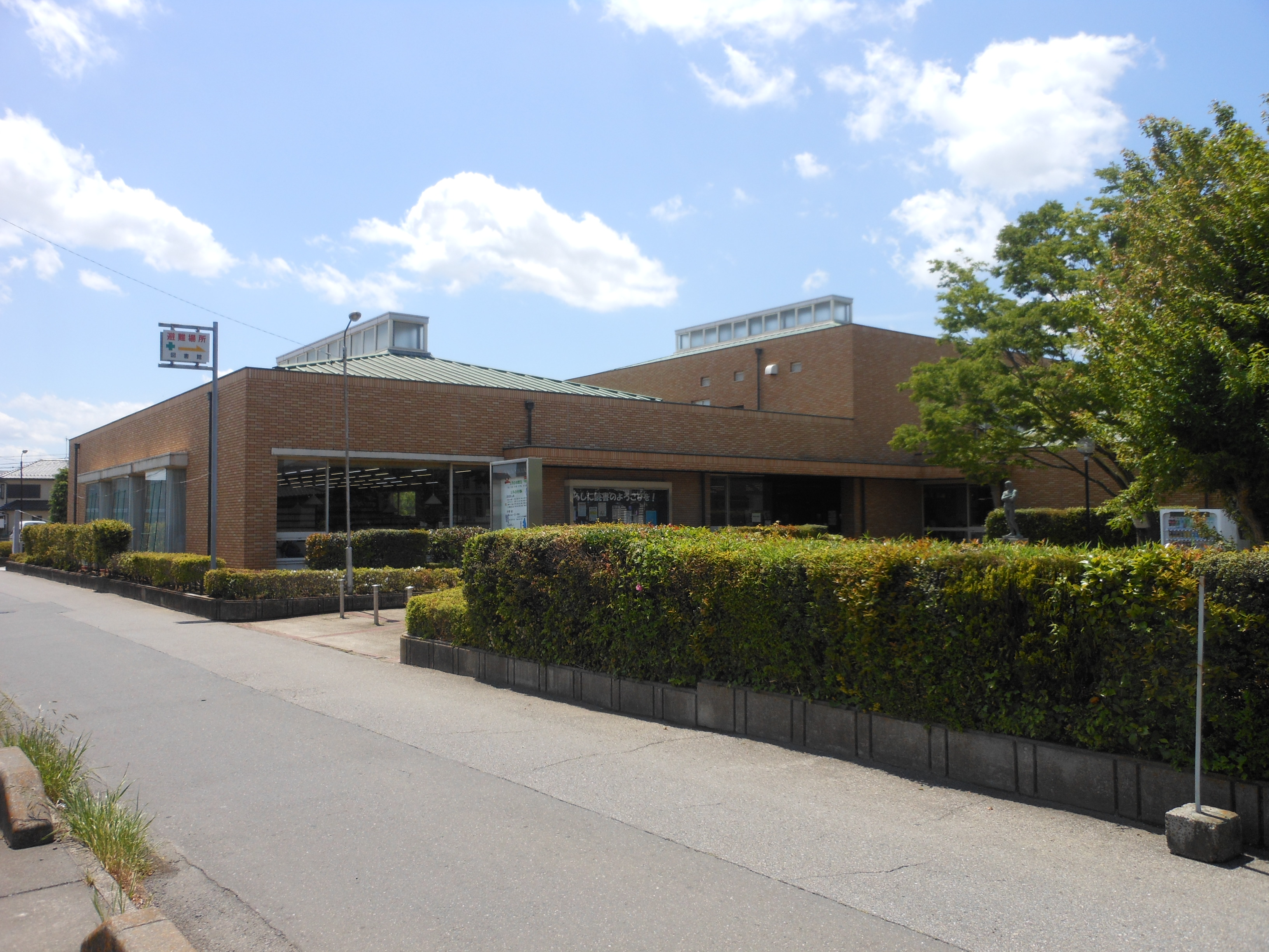 This is a library in Joso,Ibaraki, Japan.